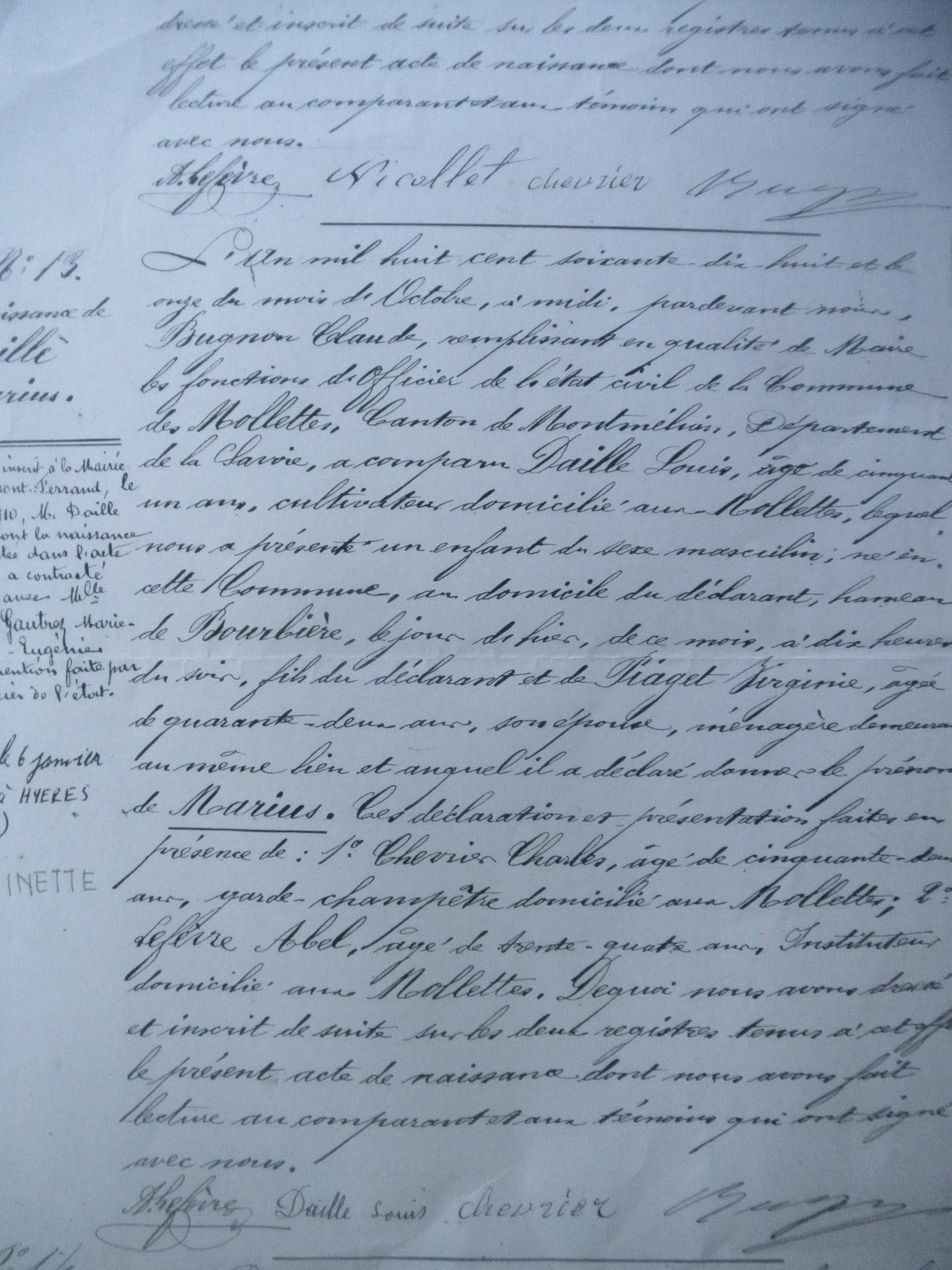 1878 acte de naissance